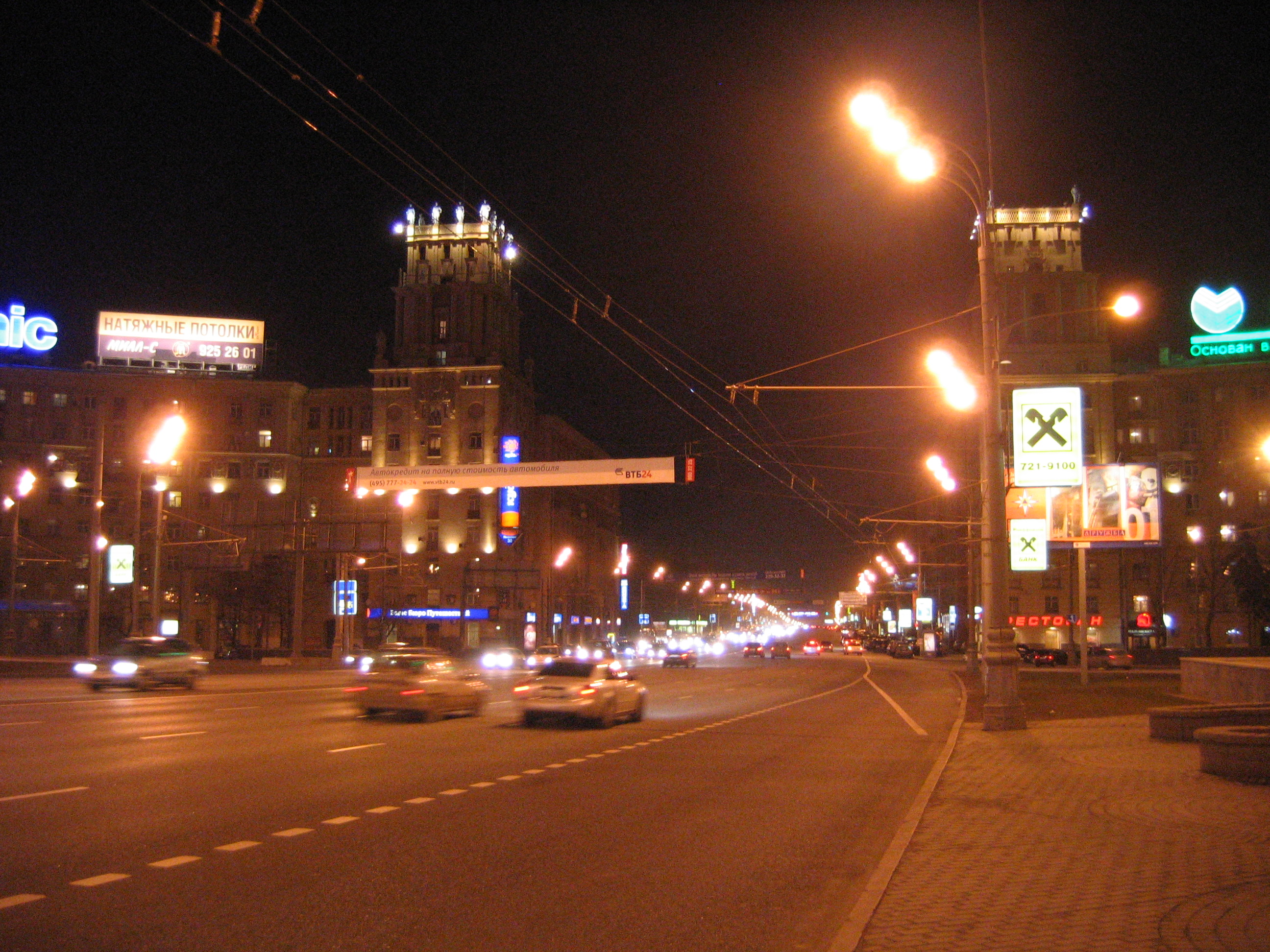 Leninsky prospect at Moscow, Russia, view from Gagarin square